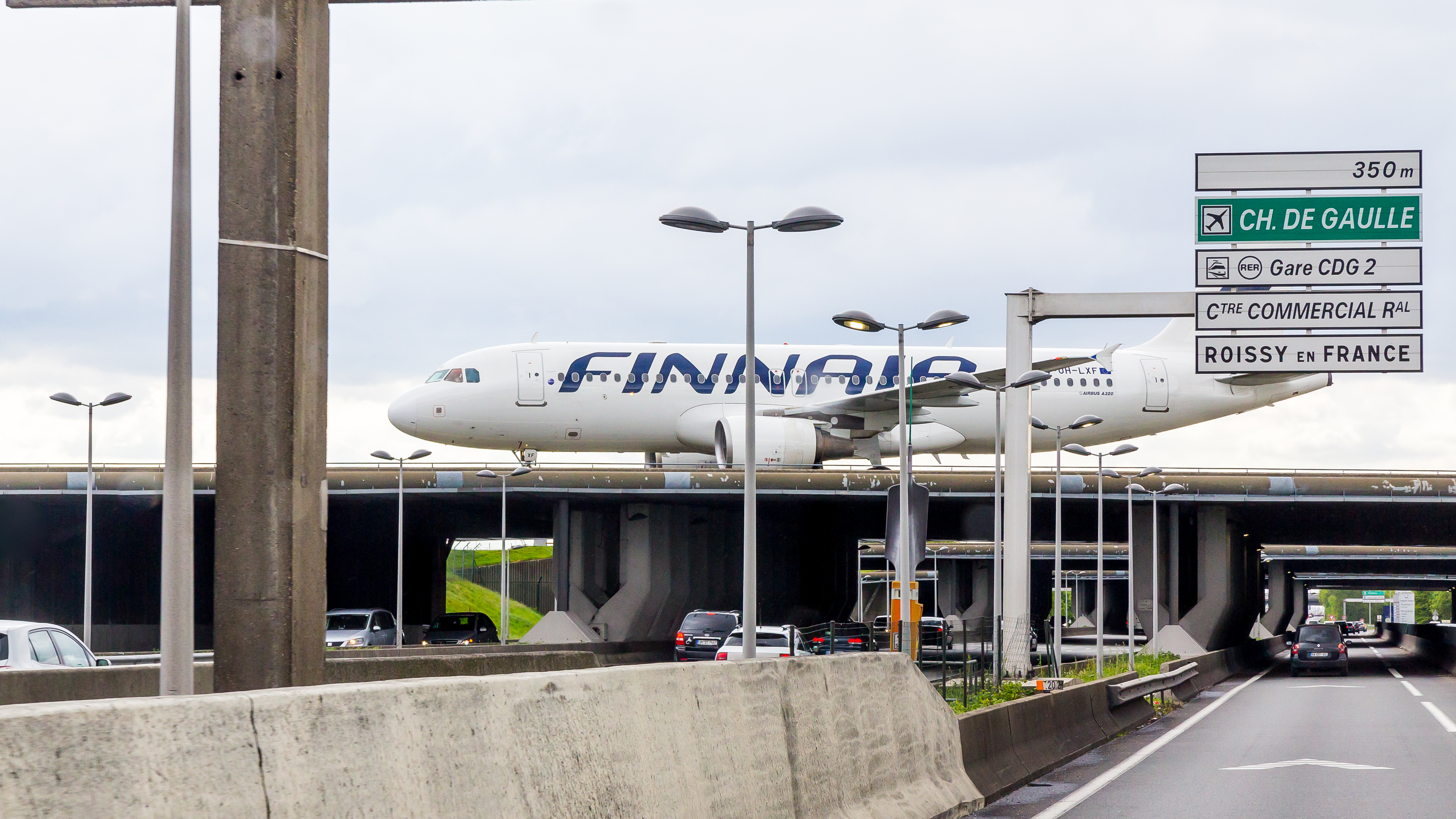 Finnair Airbus A320-214 (OH-LXF) on runway of Airport Charles-de-Gaulle. Traveling directrion south. The highway Autoroute A1 is crossing below the runways of the Airport CDG.